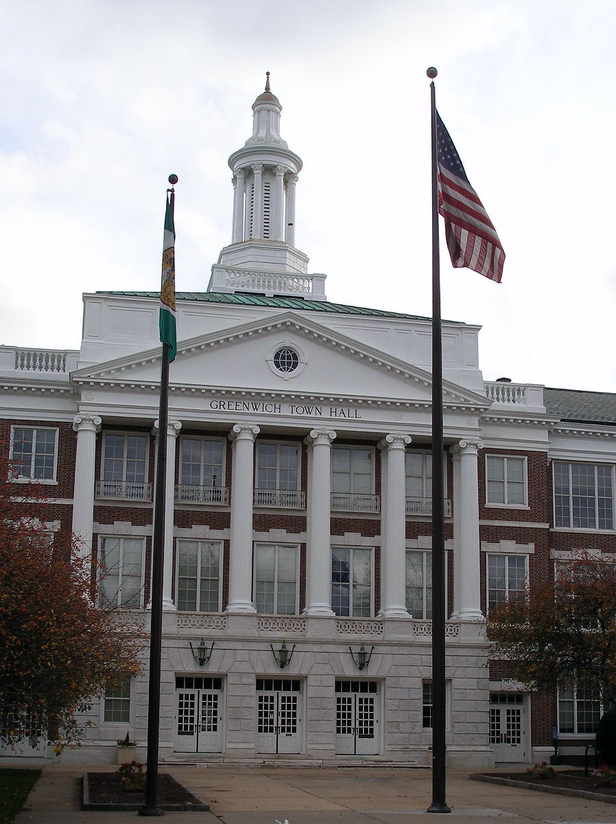 Greenwich (Conn.) Town Hall